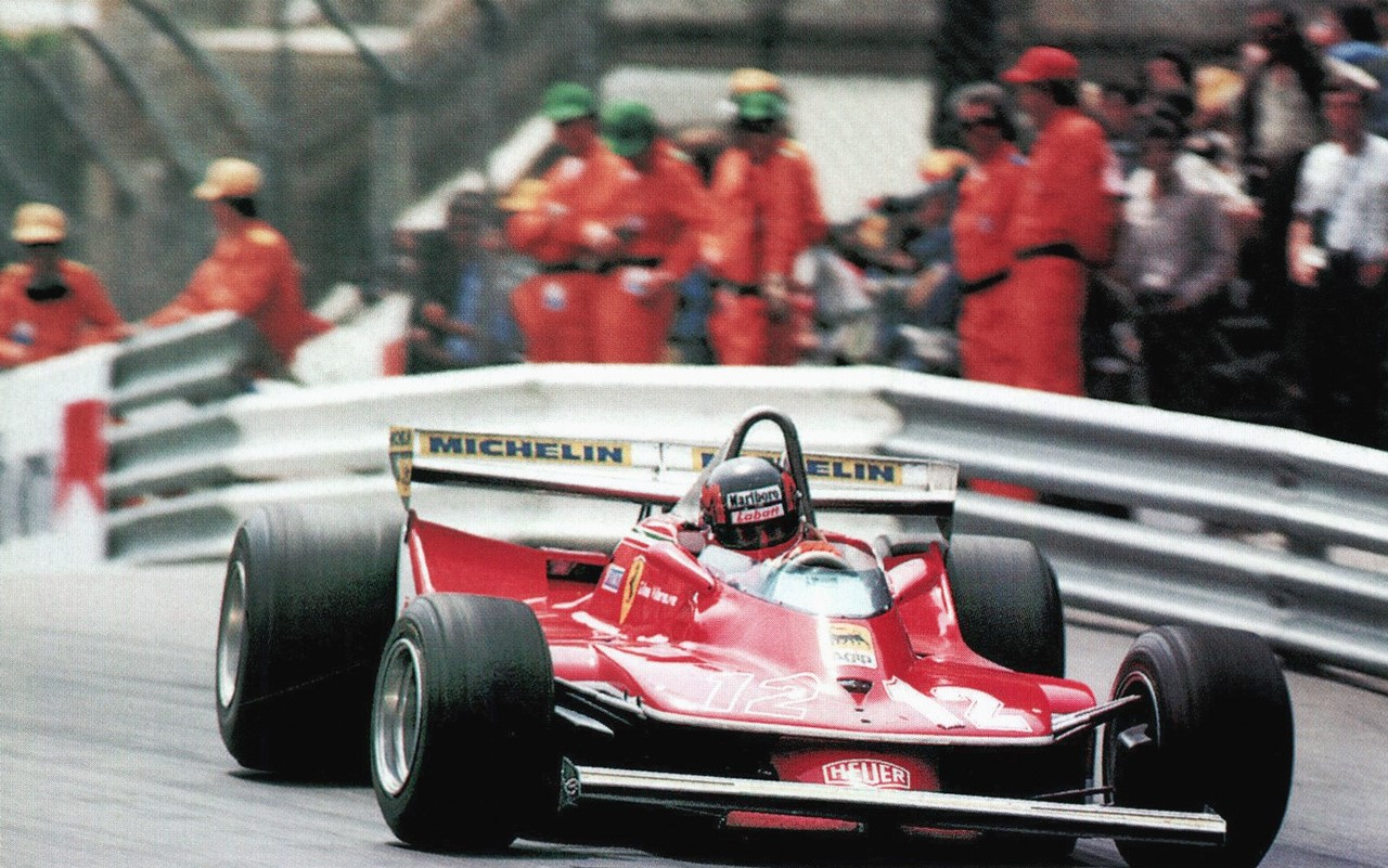 1979 Monaco Grand Prix Ferrari 312T4 Gilles Villeneuve